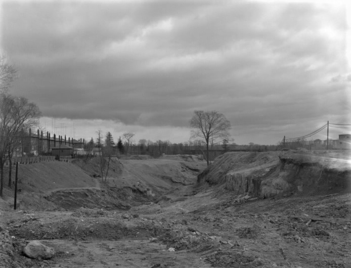 Construction of Eglinton Avenue across the Don Valley gap in 1956 (Cropped from original)